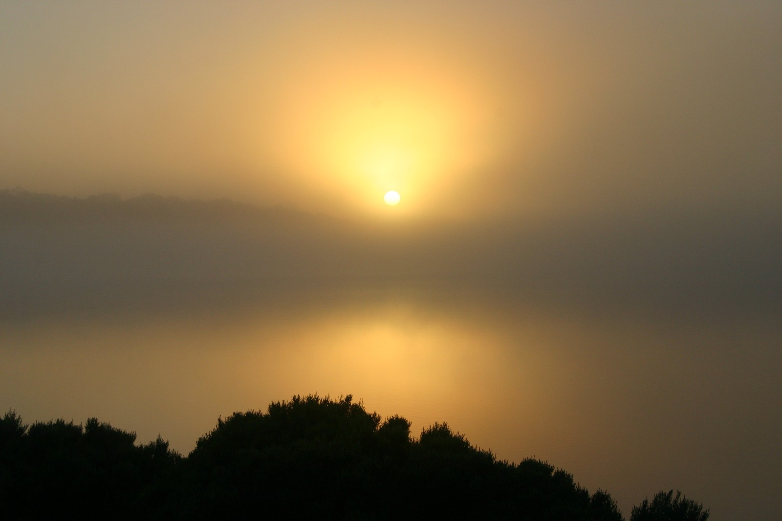 Sunrise through the mist near Yangie Well camping area, Coffin Bay National Park. I took this photograph in March 2006. Takver ( It is Released under GNU FDL. 12:39, 3 May 2006 Tirin 1600x1066 (147701 bytes) (Sunrise through the mist near Yangie Well camping area, Coffin Bay National Park. I took this photograph in March 2006. :en:Takver ( It is Released under GNU FDL. )